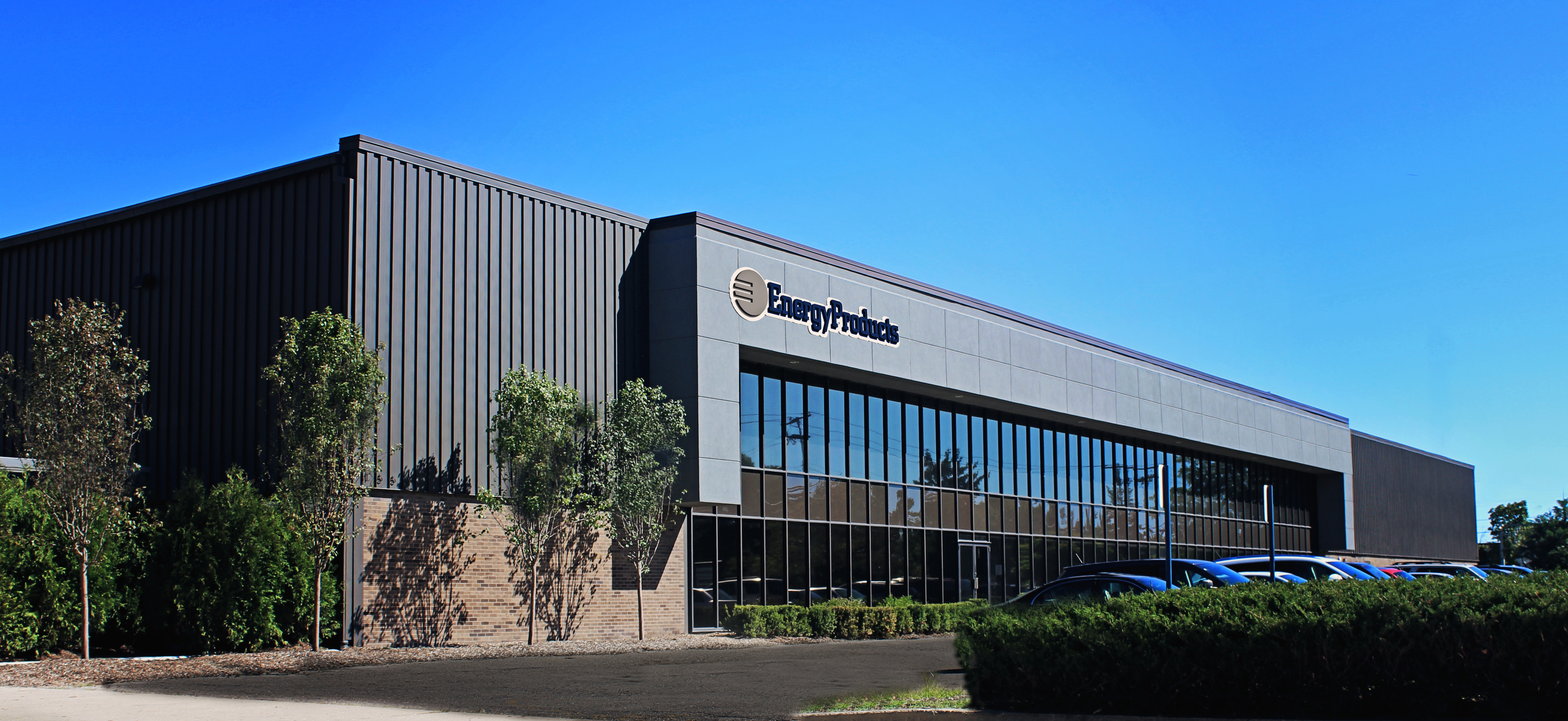 Exterior shot of completed building renovations for Energy Products.